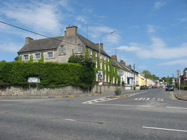 Drogheda Street, Collon, Co. Louth Collon House, the 18th-century home of the Fosters, stands at the crossroads in the village.